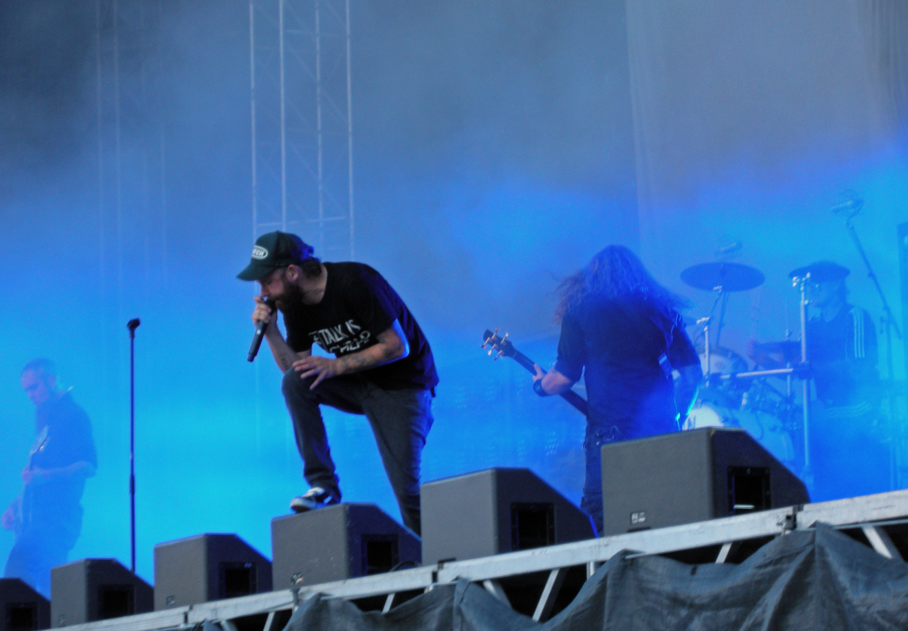 In Flames at Sonisphere Festival, Stockholm, Sweden 2011. Björn Gelotte, Anders Fridén, Peter Iwers, and Daniel Svensson